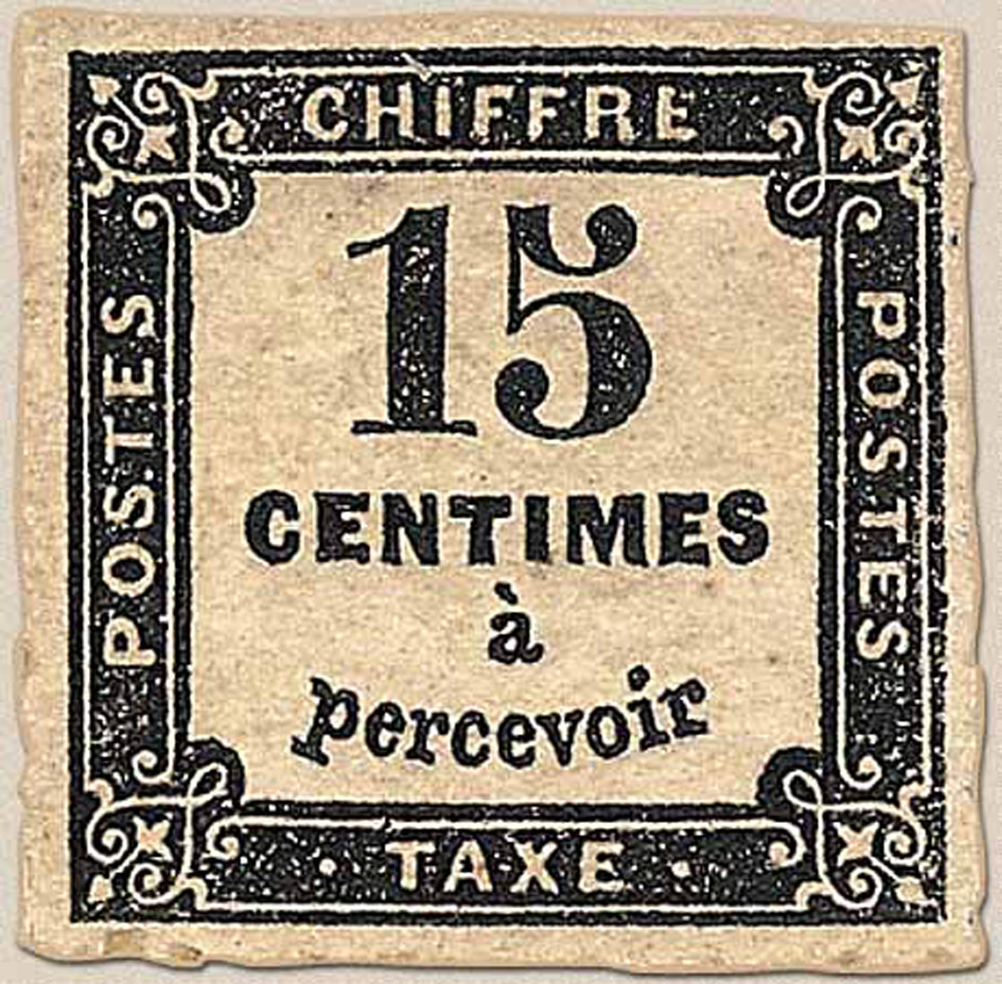 Postage due stamp, issued April 1864, typography, Maury no. 3 type IB (flawless 'a').